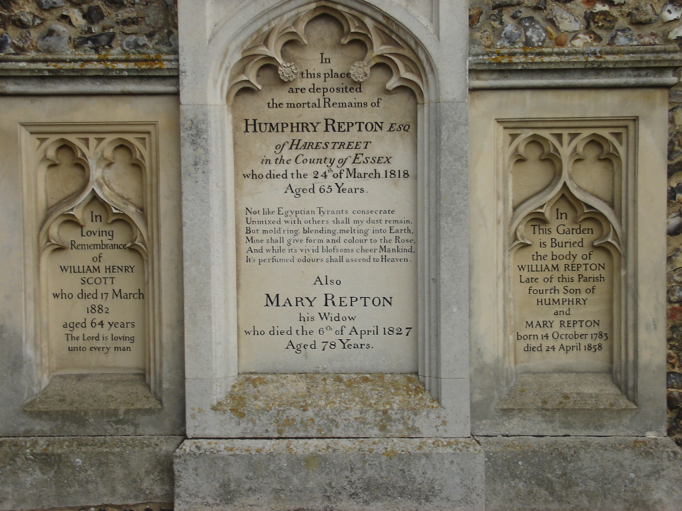 Humphry Repton's grave.